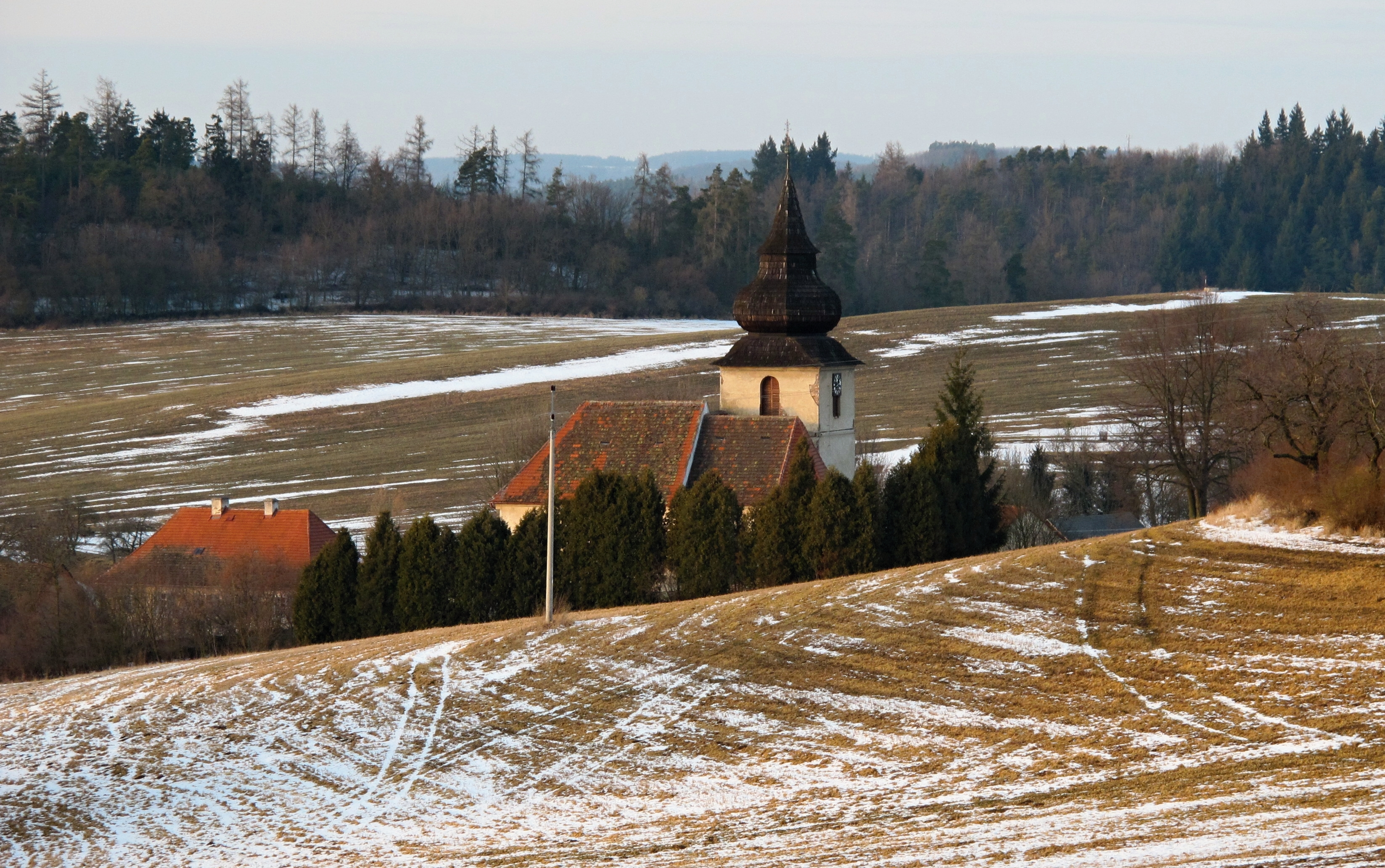 Church of Saint Mary Magdalene in Bělice (Neveklov) in Benešov District (Czech Republic)